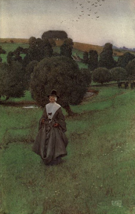 The Book of old English songs and ballads